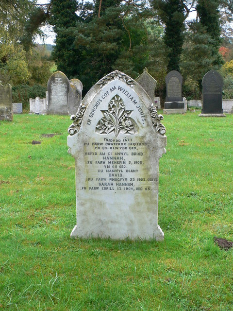 Carreg Fedd Ehedydd Iâl William Jones - Ehedydd Iâl ("the lark of Yale") was a Welsh poet and hymn writer who lived in Denbighshire in the 19th century. His gravestone is at Llandegla Parish Church.